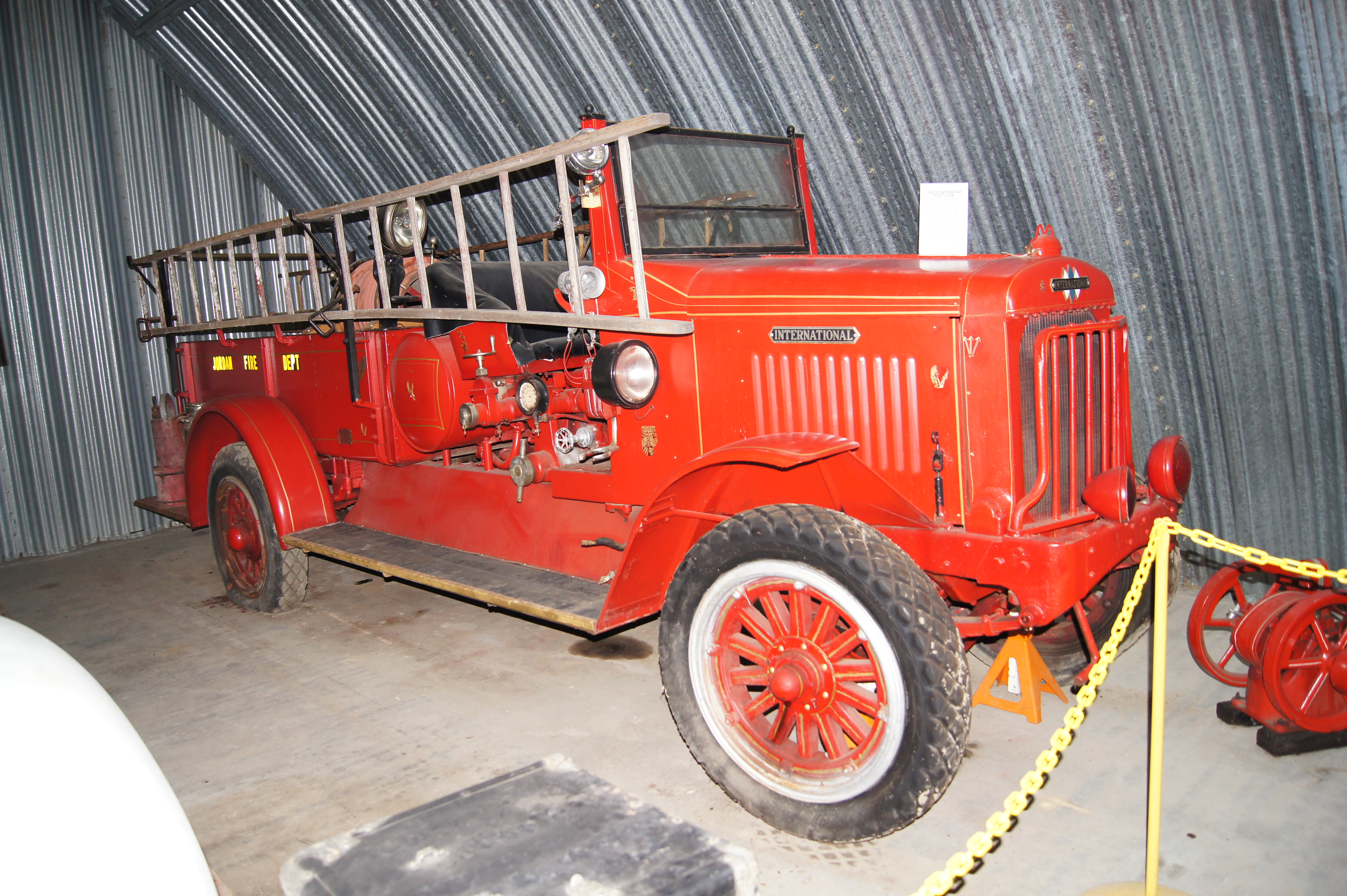 Car Buff's Breakfast November 2013 Kandi Entertainment Center Willmar Minnesota Click link below for more car pictures: The 2013 Car Buffs' Breakfast season went out with with a bang. Nice weather, visitors from the Wright County Car Club and a late start to the Deer Hunting Season helped push attendance over 80 when the club was expecting 60. Kandi Entertainment Center did an admirable job coping with the extra people. Attendees had an opportunity to see Mr. Theis's collection of Motorcycles and exciting Rat Rods. Then the Schwanke Tractor, Truck & Car Museum opened for viewing another great collection.